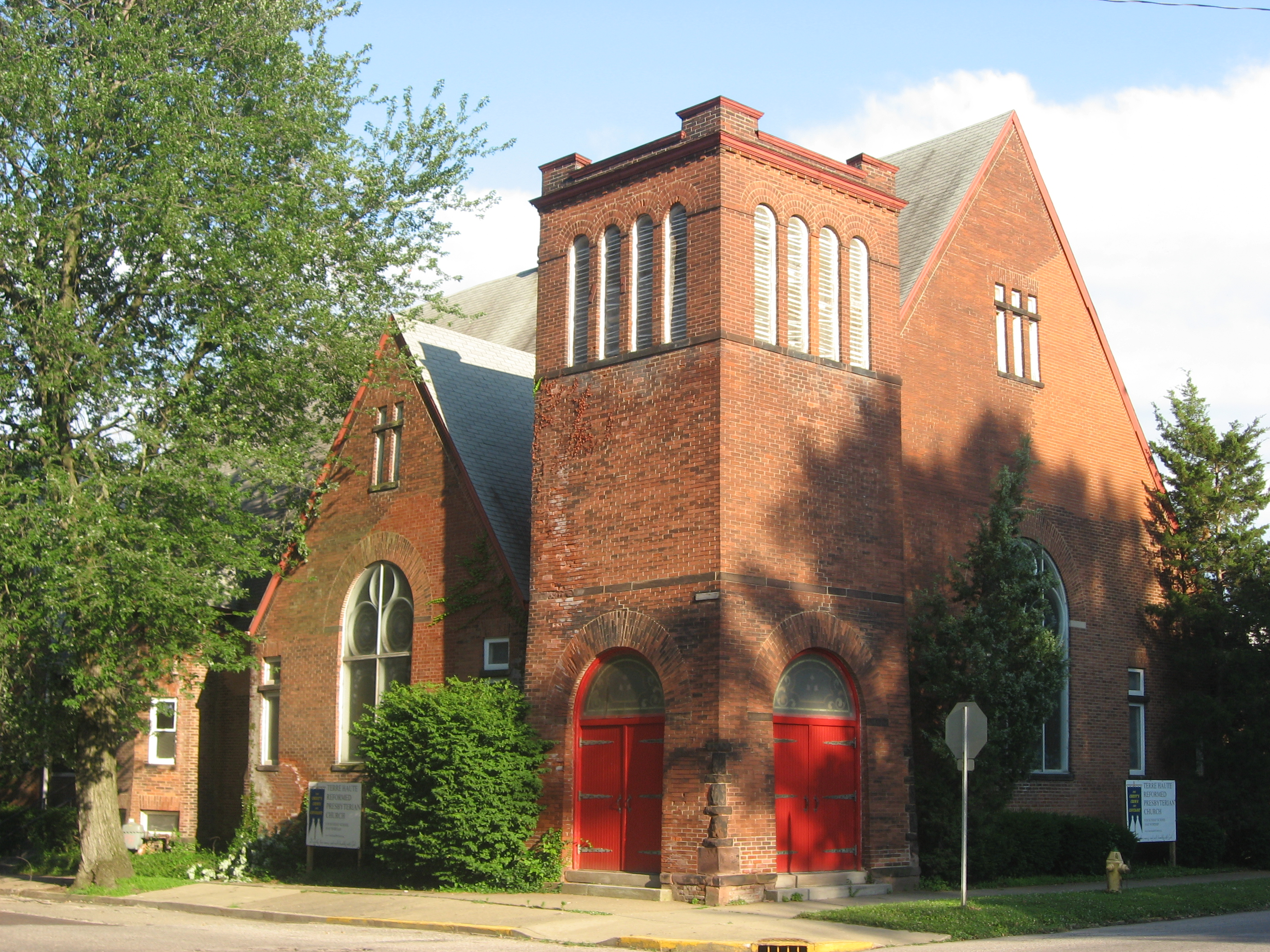 A church on the southeastern corner of the junction of Sixth Street and Washington Avenue in Terre Haute, Indiana, United States. The church (built in 1892) is part of the Farrington's Grove Historic District, a historic district that is listed on the National Register of Historic Places.